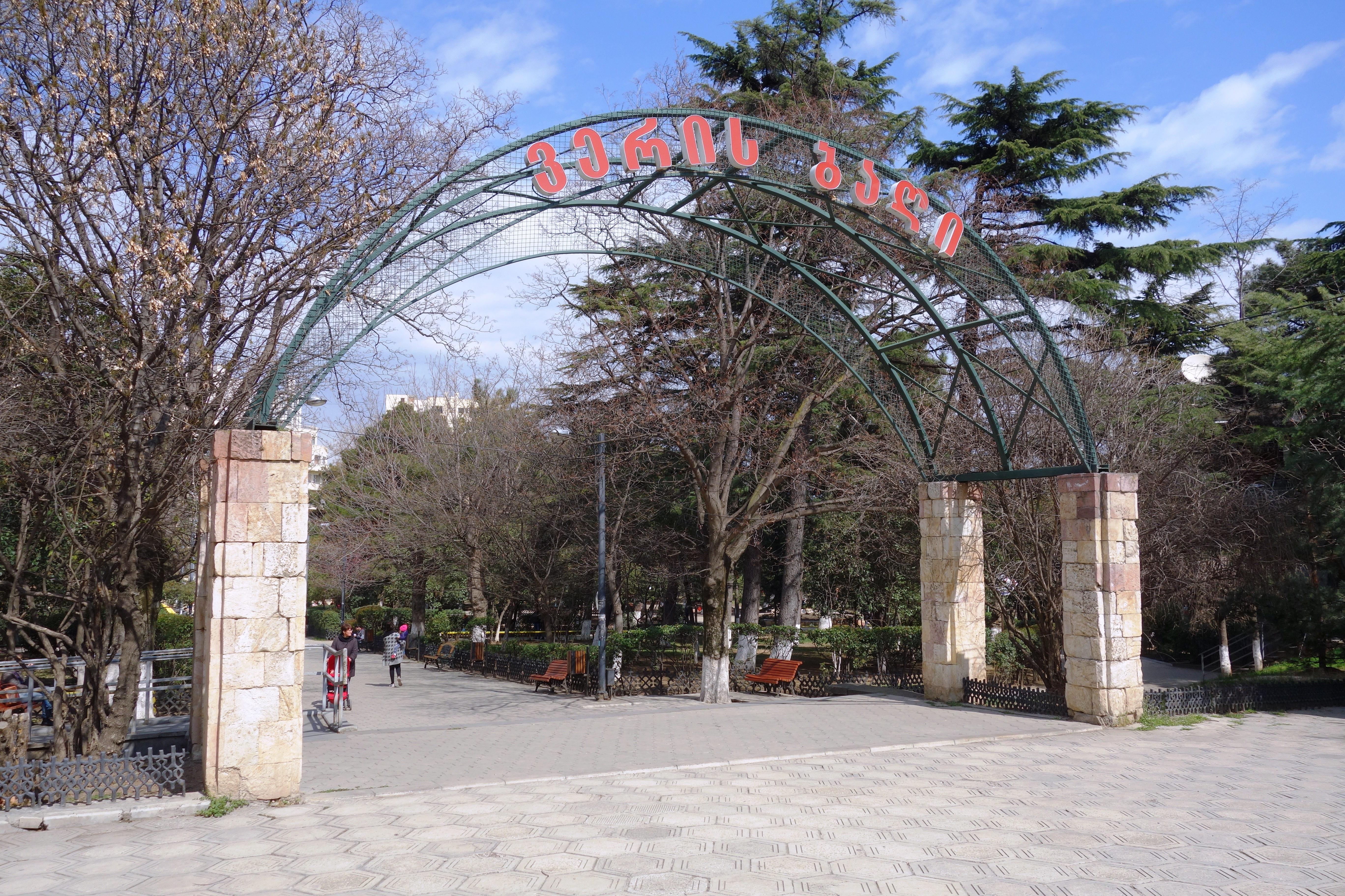 Vera Park, Tbilisi, Georgia